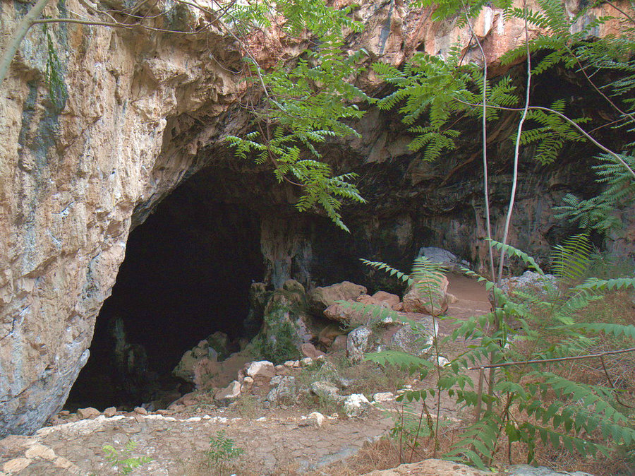 Entrance of Skotino cave, near Gouves, Crete